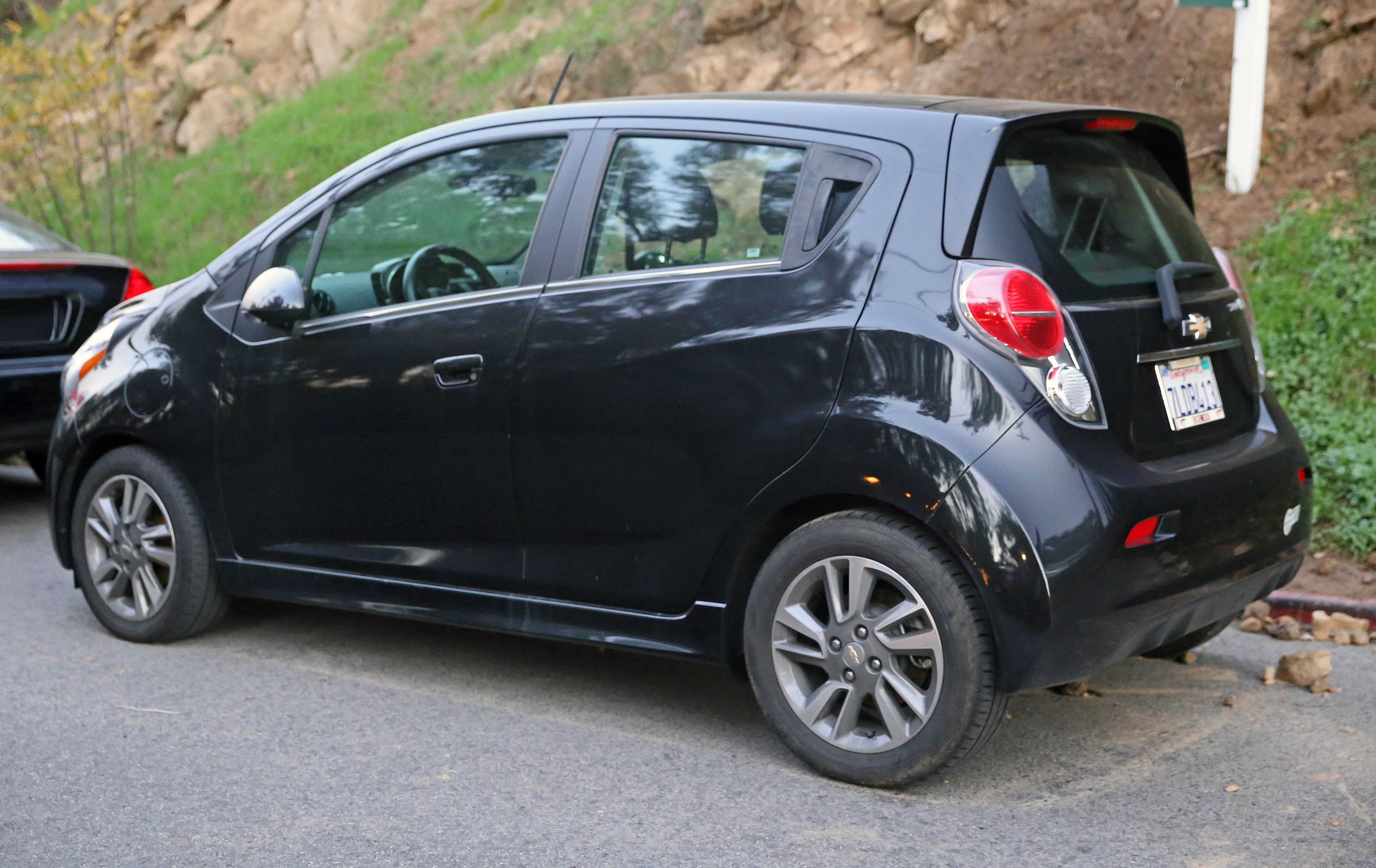 A 2015 Chevrolet Spark ev in Los Angeles, CA.